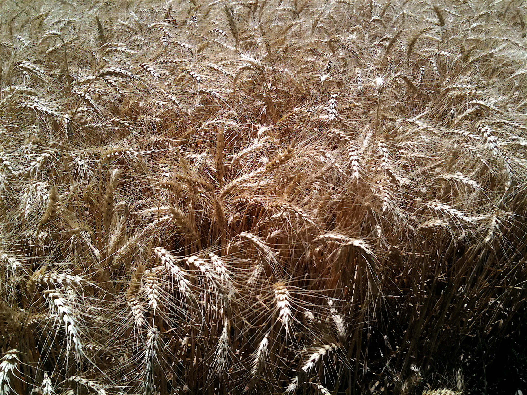 Wheat in Aranjuez, near Madrid